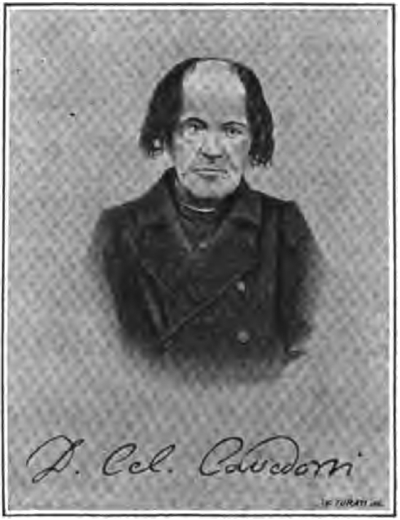 Image from Rivista italiana di numismatica 1891 (p. 569) Portrait of Celestino Cavedoni.